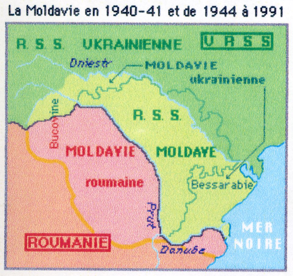 Map of Moldova/Moldavia 1940-1991